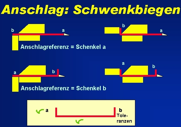 Inaccuracies all show up in the first flange